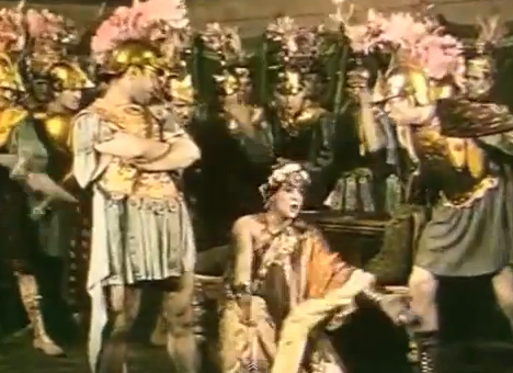 1911 screenshot of actor Jean Aymé in the Louis Feuillade-directed film Héliogabale.